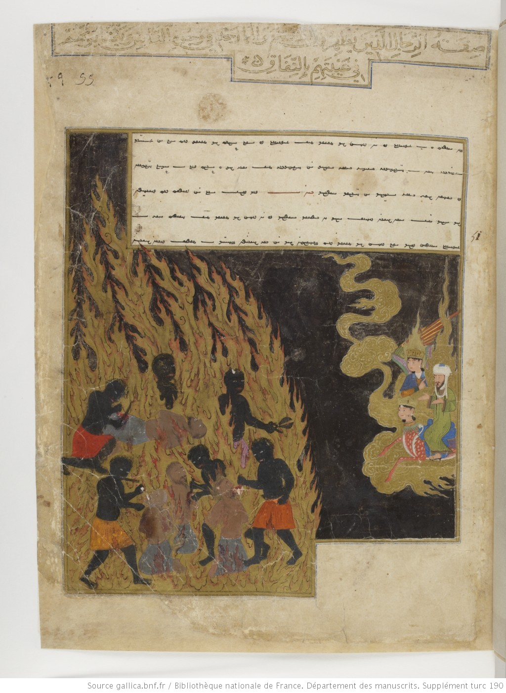 The punishment of hypocrites (cutting of flesh), Persian miniature.